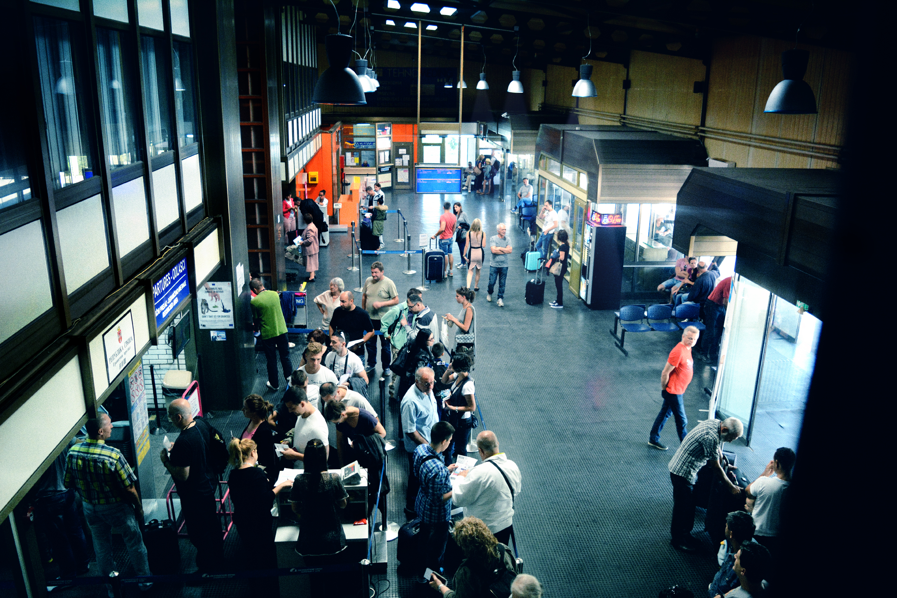 Interior view of Nis Airport Terminal